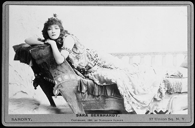 French stage actress Sarah Bernhardt (1844-1923) as Cleopatra, photograph by Napoleon Sarony (1821-1896)